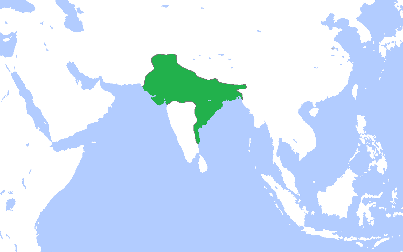 Locator map of the Gupta Empire at its peak. (Partially based on Atlas of World History (2007) - South and Southeast Asia, States and Empires 300-1525, map)